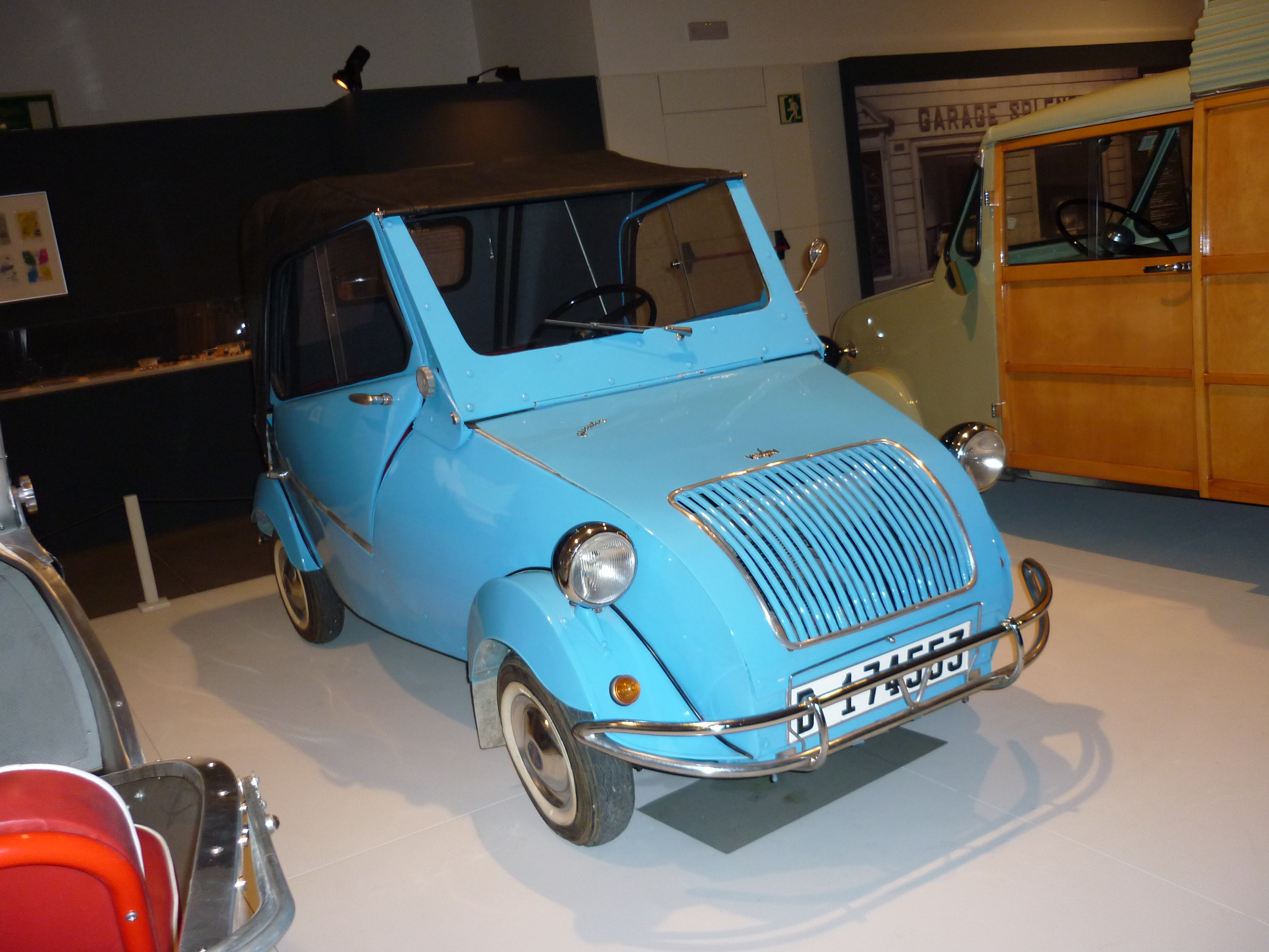 Biscúter 200-A/R "Espardenya" (1956), microcar made in Catalonia